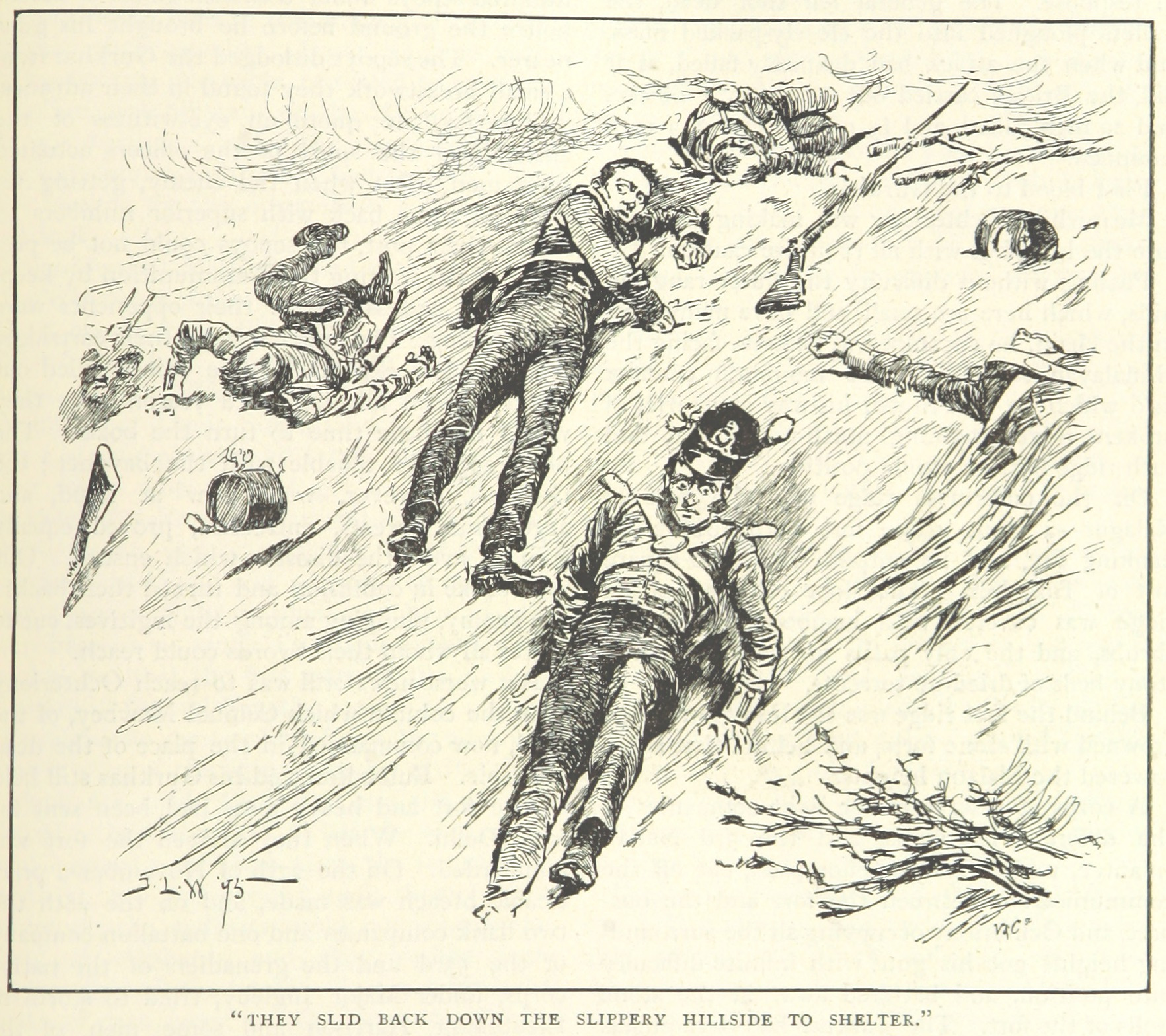 British pioneers retreat after their first attack fails at the 1814 Battle of Nalapani.